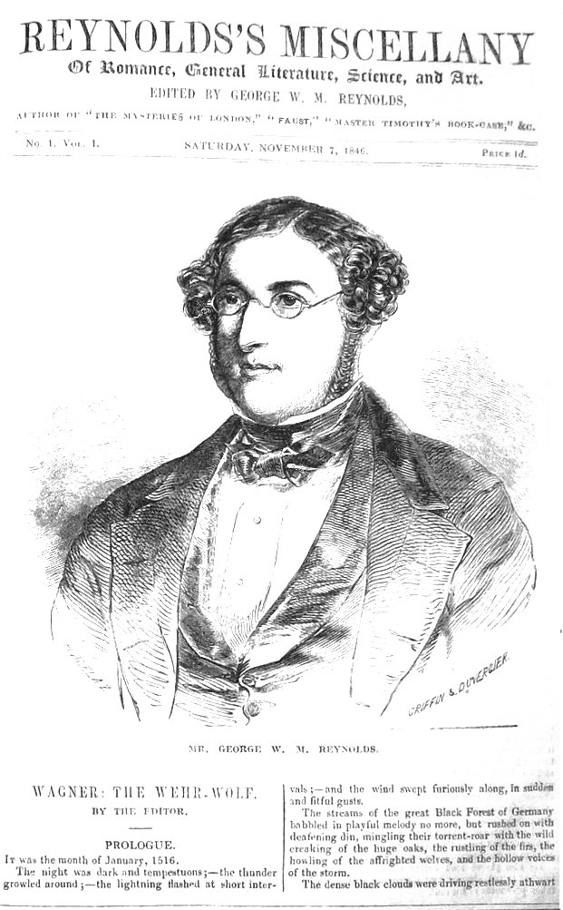 George W. M. Reynolds pictured on the front of his Newspaper. Front cover of Reynolds's Miscellany, No. 1, Vol. 1, Saturday, November 7, 1846. This image's copyright is expired. The image was first published in 1846.)